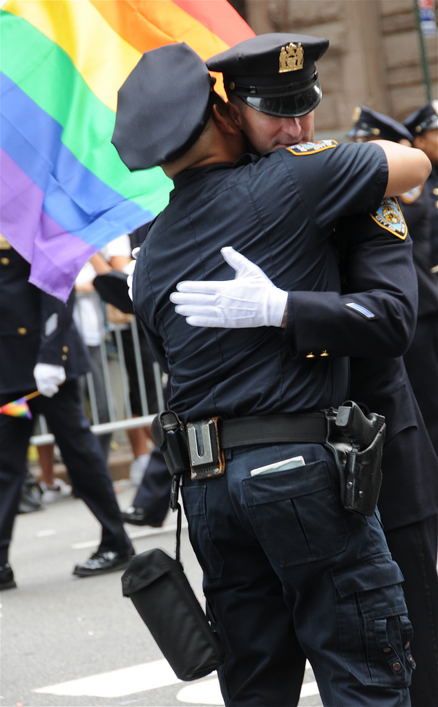 An on-duty copy hugs a gay cop who was participating in the march.